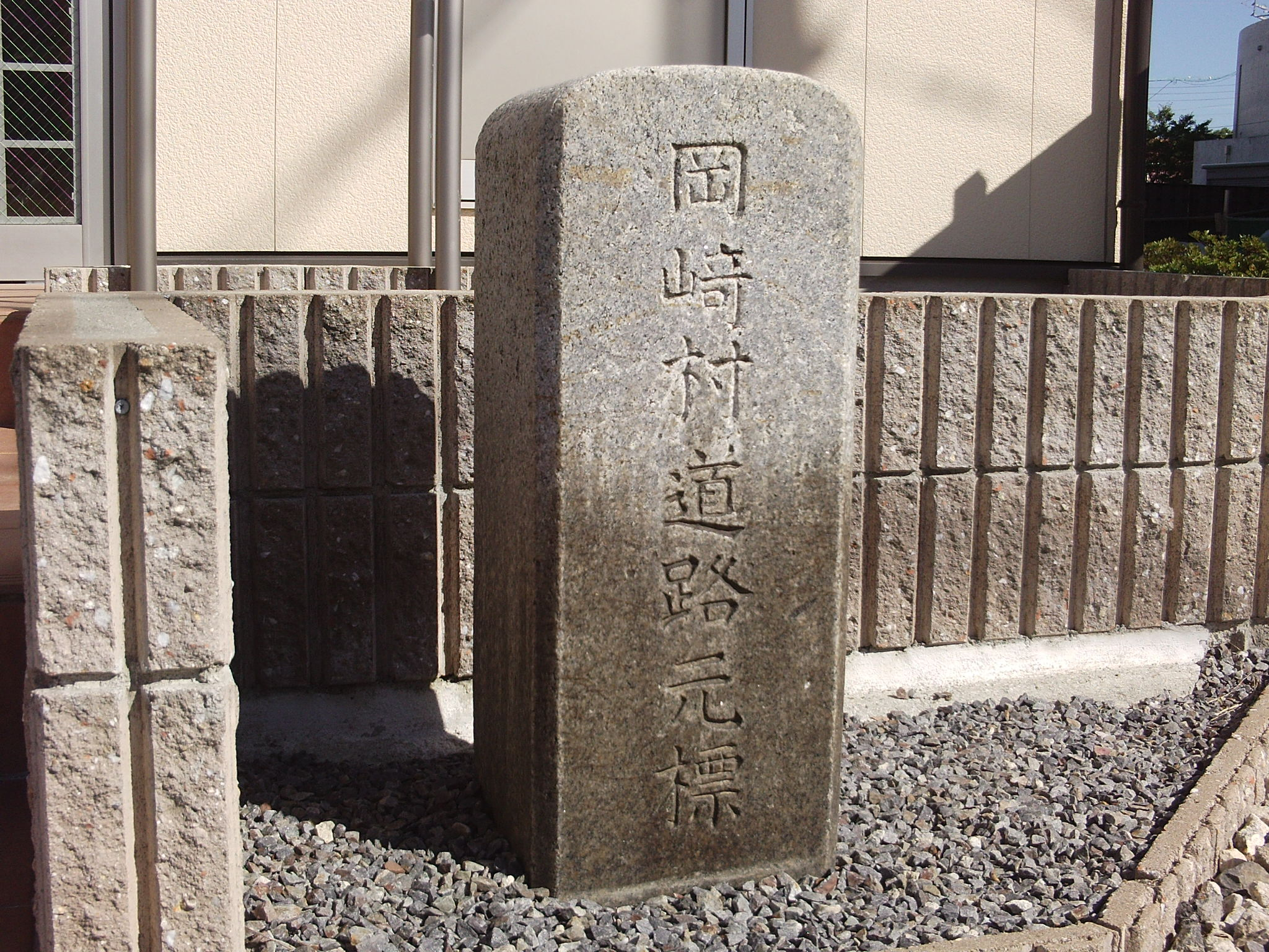 Kilometre zero of Okazaki village. (Okazaki village, Nukata-gun, Aichi.)